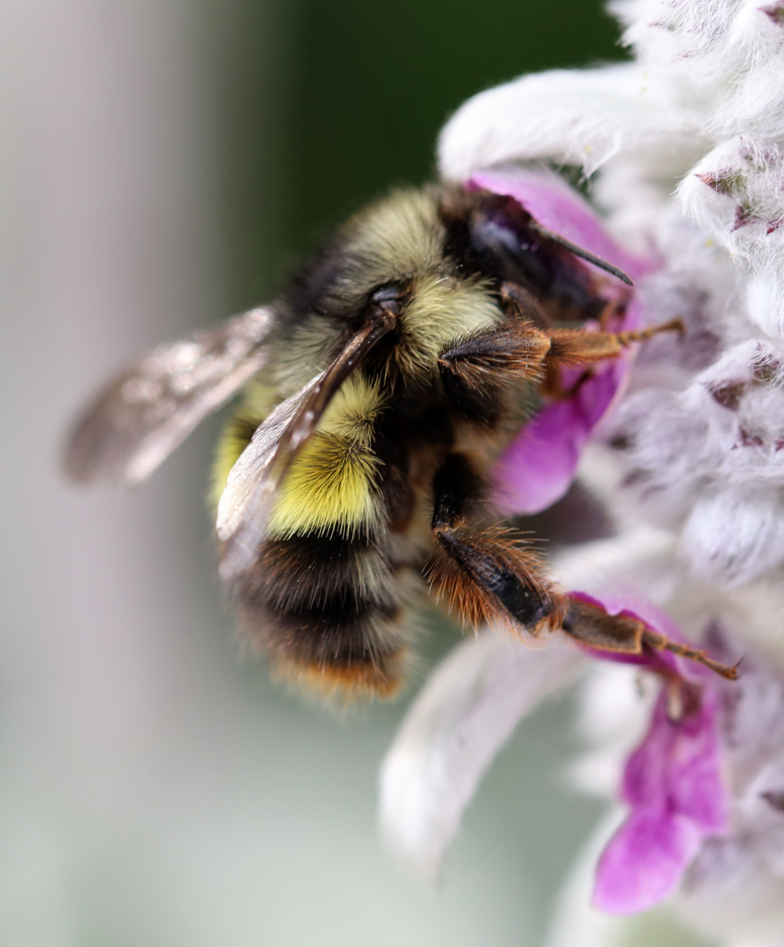 Bombus flavifrons on lamb's ear, taken in Kirkland, Washington. June 03, 2020